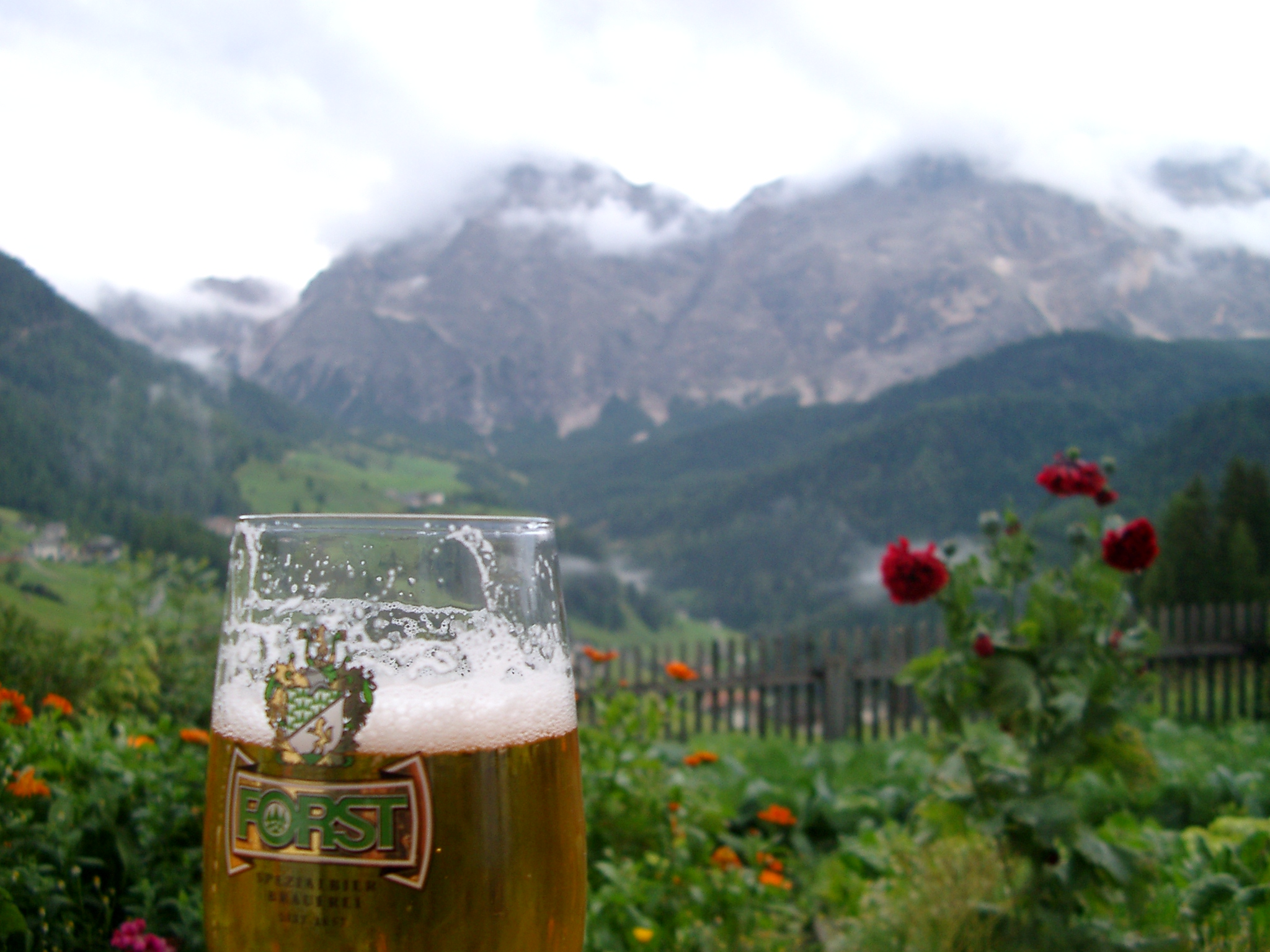 Jausenstation Ciablun in La Val with Forst Beer glass.